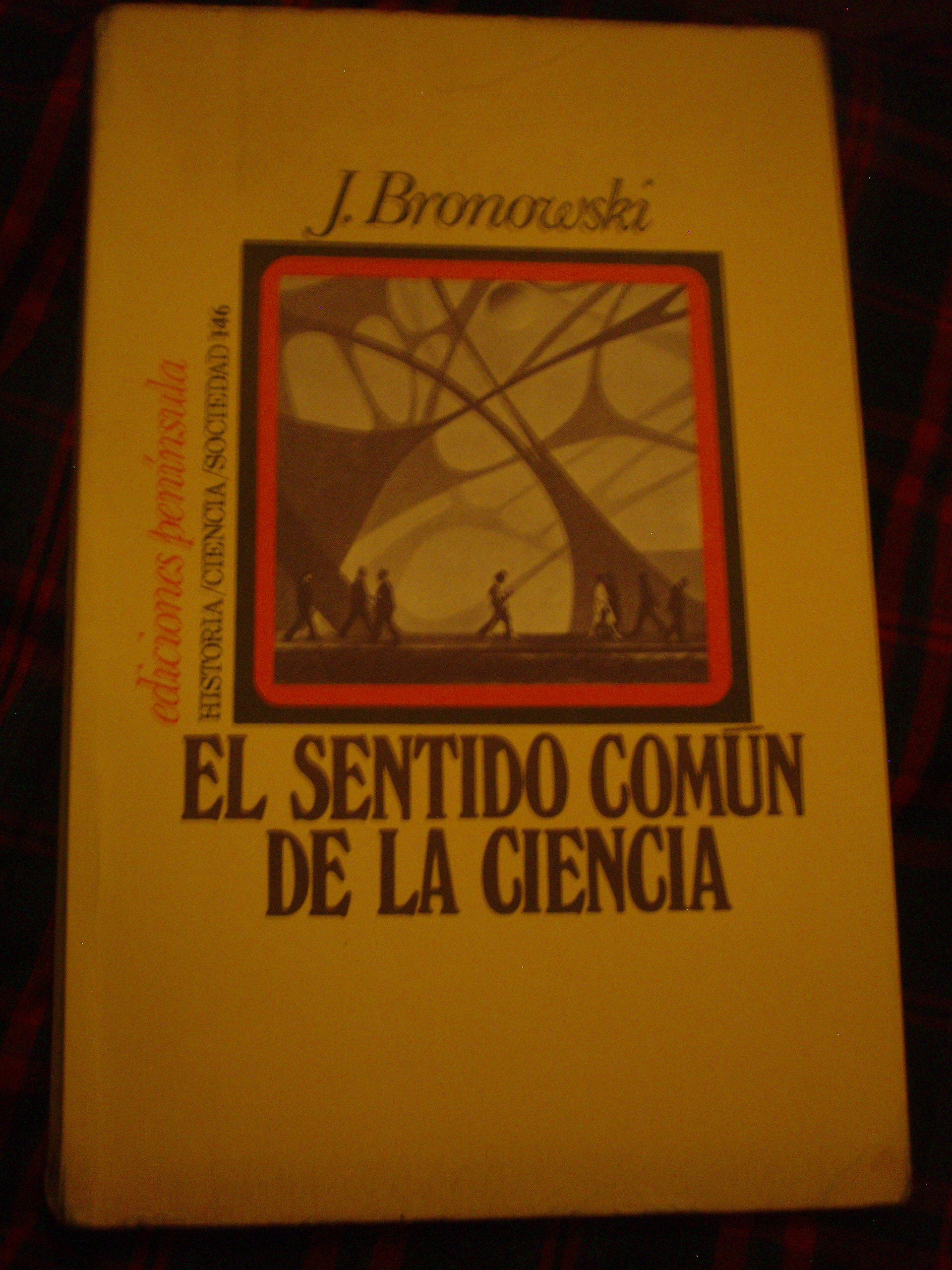 Cover of the Spanish edition of Jacob Bronowski's The Common Sense of Science. Published by Ediciones Península, Historia/Ciencia/Sociedad series, no. 146. Feb 1978, Barcelona.